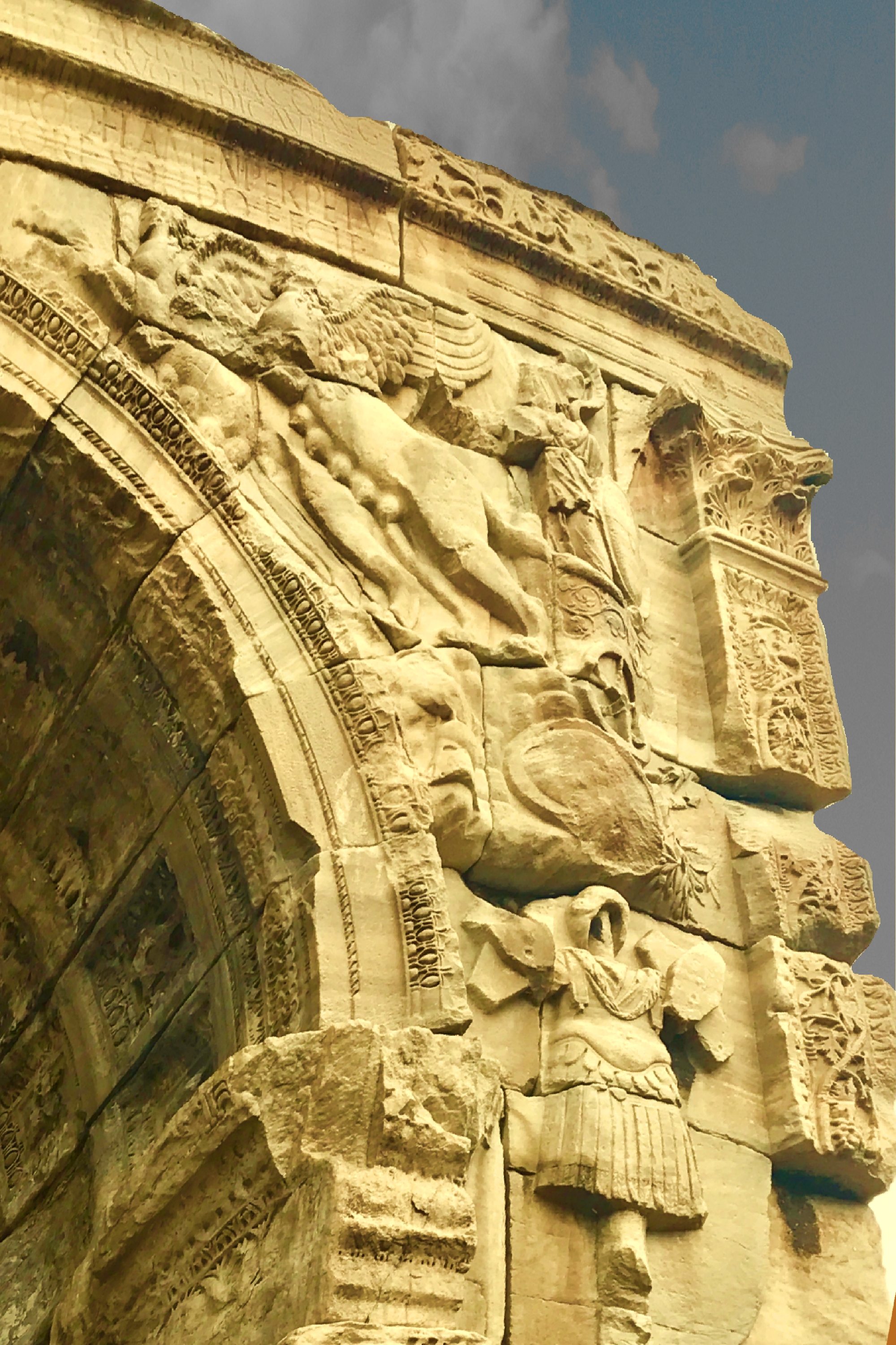 detail of Marcus Aurelius Arch in Tripoli